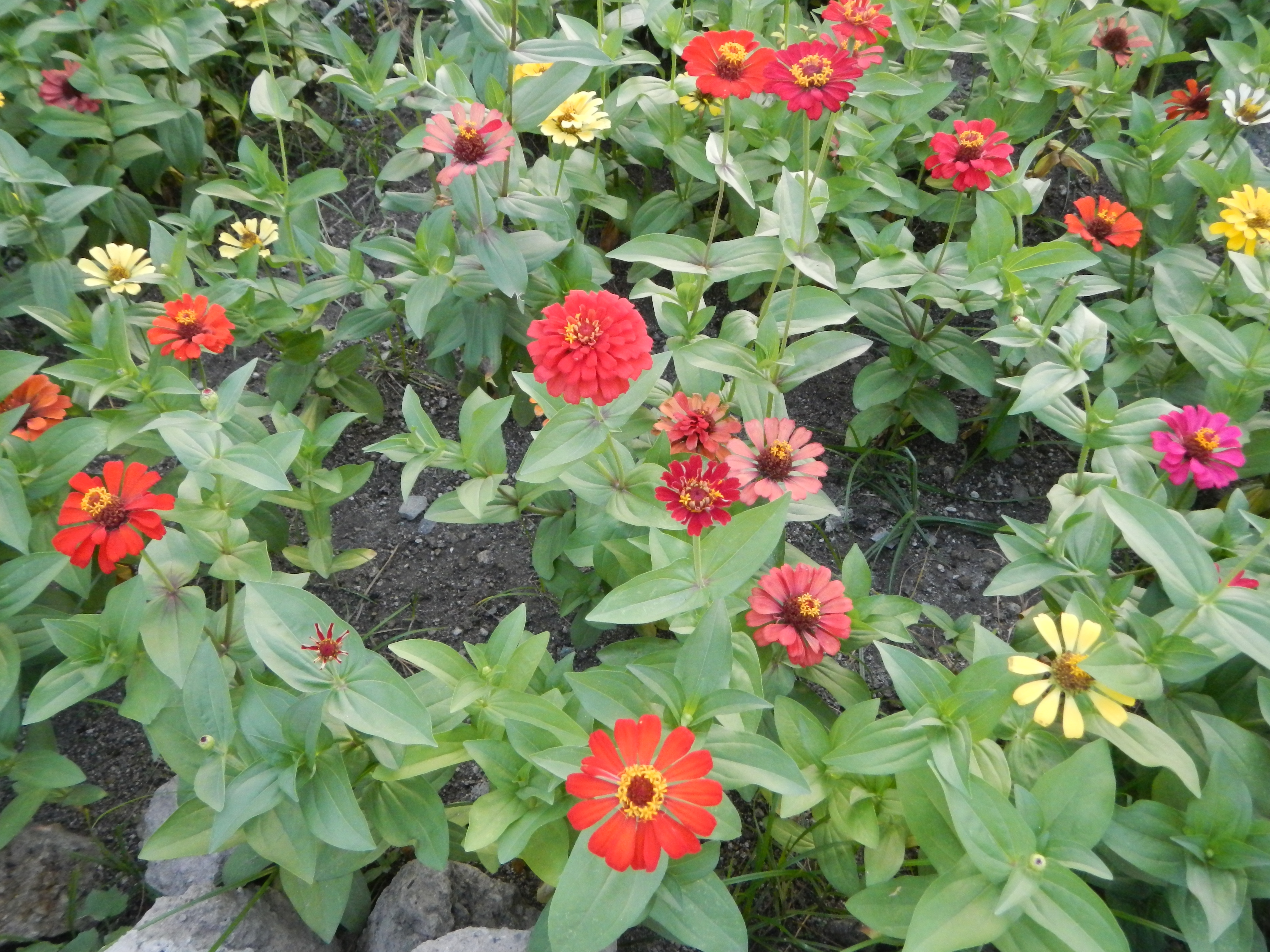 Unidentified Zinnia in Apung Mamacalulu in Barangay Lourdes Sur, Angeles City, Pampanga.